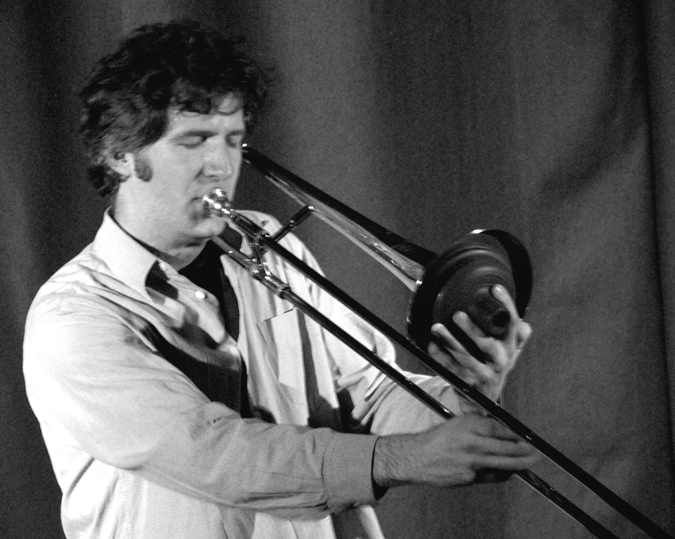 description: Jeb Bishop photographer: Seth Tisue photographer_location: Boston, MA, USA photographer_url: [1] flickr_url: [2] taken:November 14, 2004